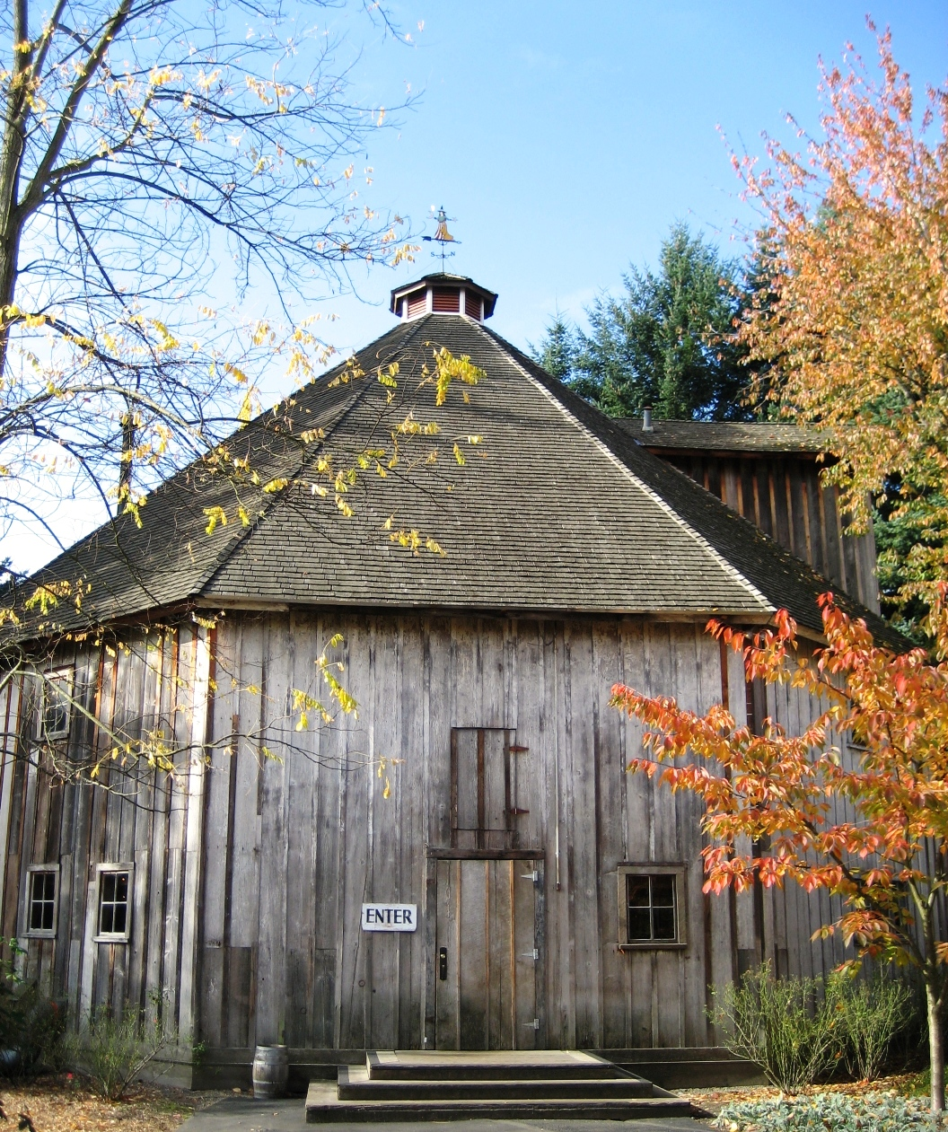 Hillsboro, Oregon Imbrie Farm octagonal barn. Imbrie Farm is listed on the National Register of Historic Places. Note that the figure on the weathervane is not historic.